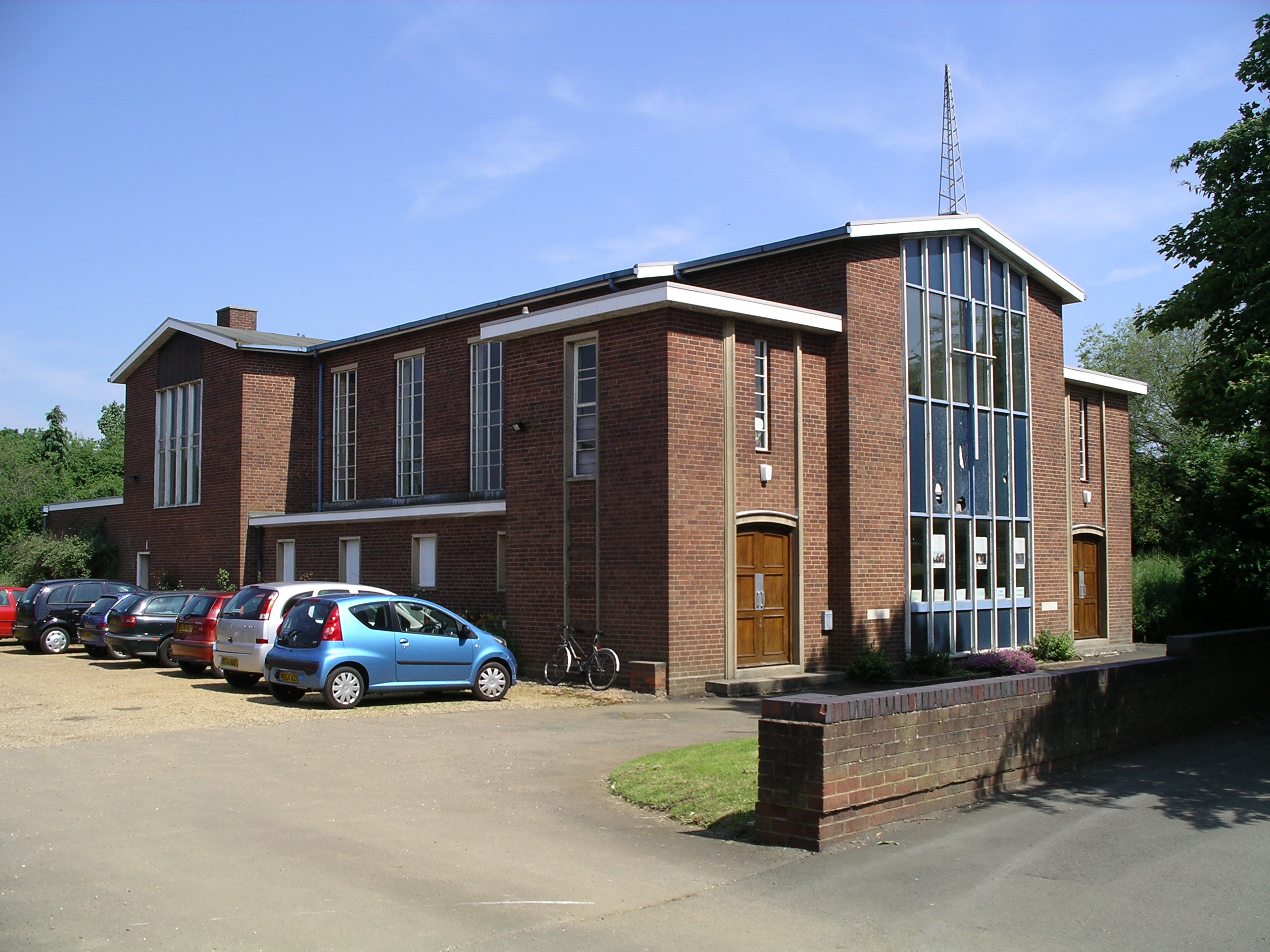 Free Church, Lillington, Royal Leamington Spa, Warwickshire, England